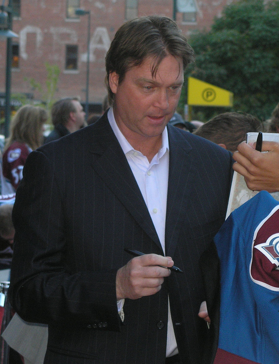 Patrick Roy signs autographs. October 7th, 2010.